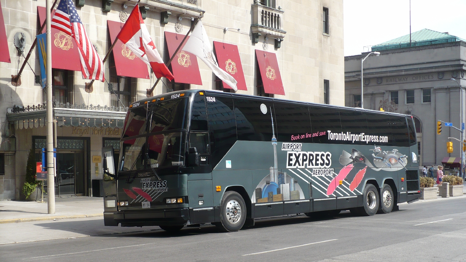 Airport Express at the Royal York Hotel in Toronto